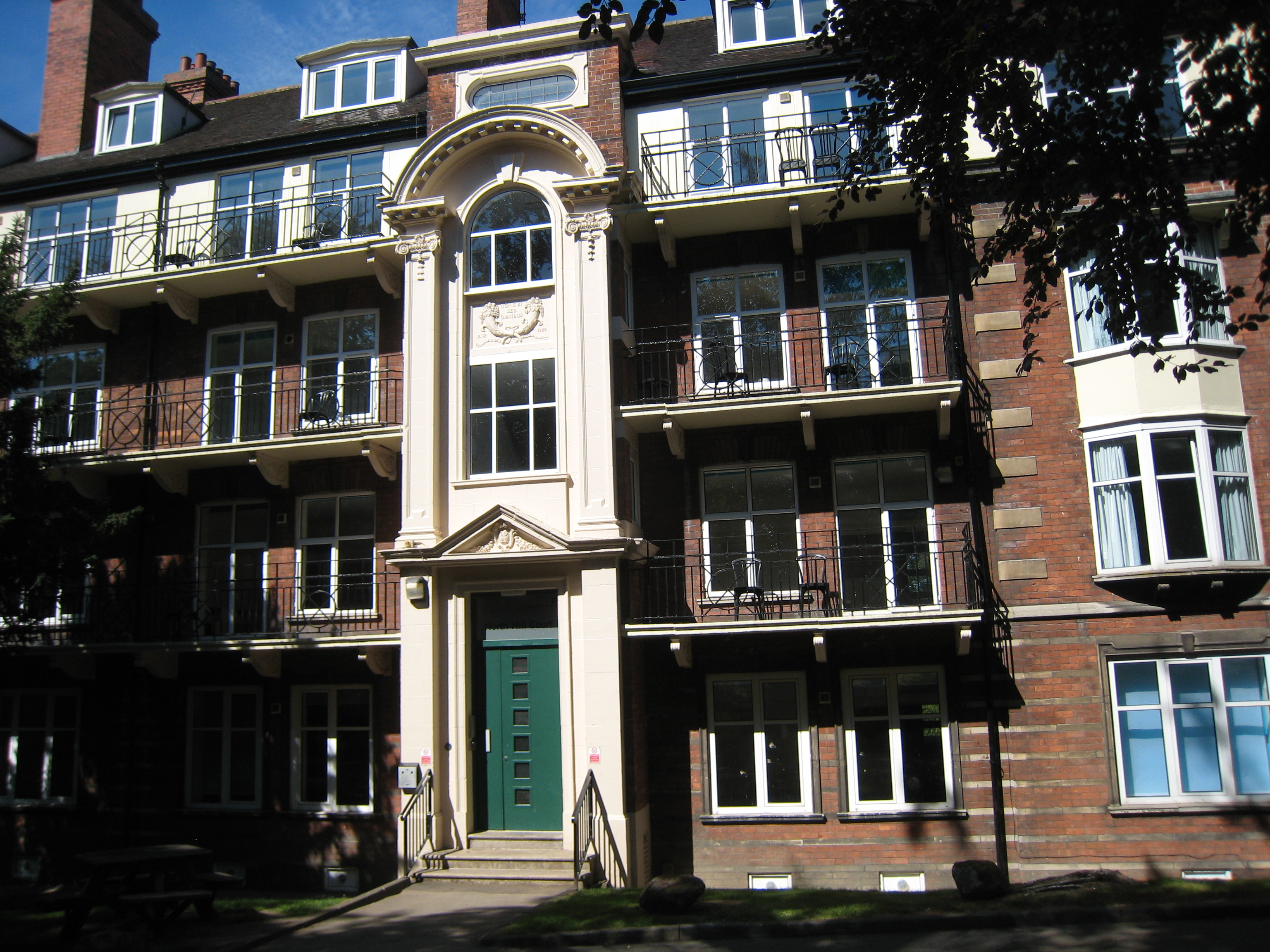 North Hill Court, North Grange Mount, Leeds, LS6 2ER. 1923 block of flats, now converted into study bedrooms for the University of Leeds. Adjacent to the James Baillie Park, which provides communal facilities.